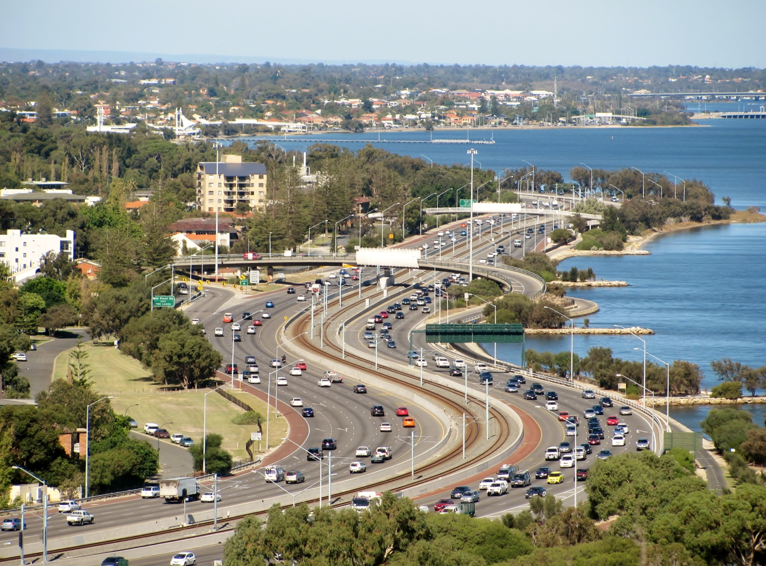 Kwinana Freeway looking south from the Narrows (above view).